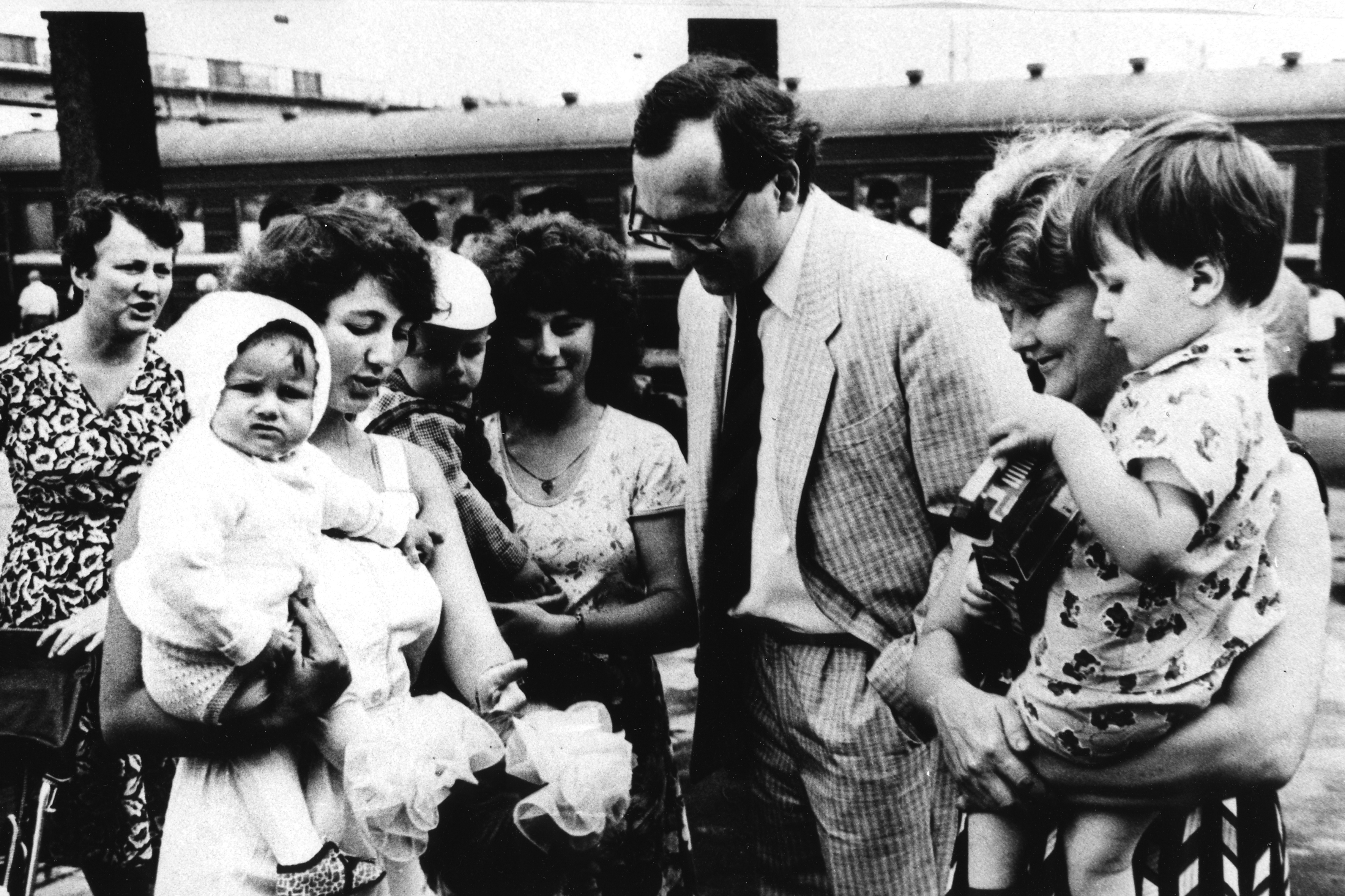 Historical collections of the Chernobyl accident from the Ukrainian Society for Friendship and Cultural Relations with Foreign Countries (USFCRFC). In 1990, children from radiation-contaminated areas went abroad for medical treatment on invitations from foreign goverments. Photo: Zdenek Huml, consul of the Czecho-Slovak Federal Republic, seeing off children and families from the Zhitomir Region on their way to Czecho-Slovakia. Copyright: IAEA Imagebank Photo Credit: USFCRFC